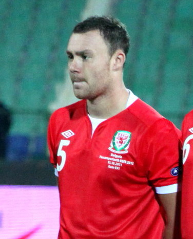 Wales national football team in 2011